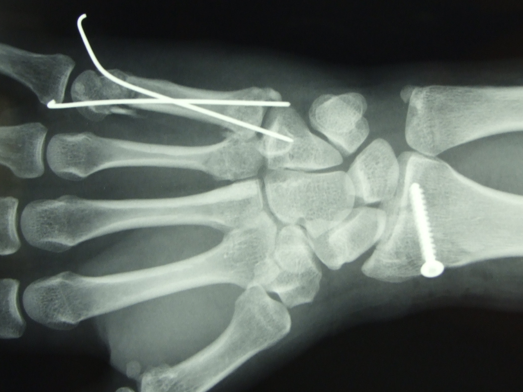 Fractured_left_hand01